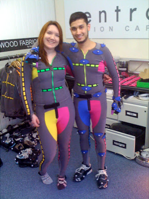 Motion Capture Performers at Centroid, Pinewood Studios